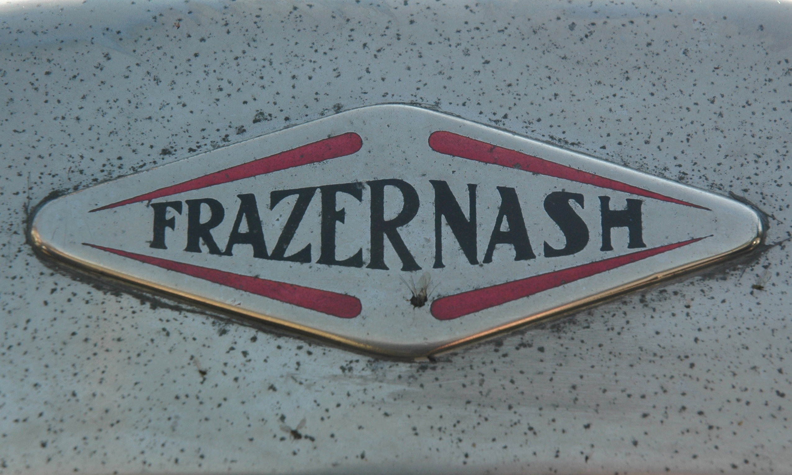 Badge of 1936-registered Frazer-Nash sports car, photographed in Oxford in 2008